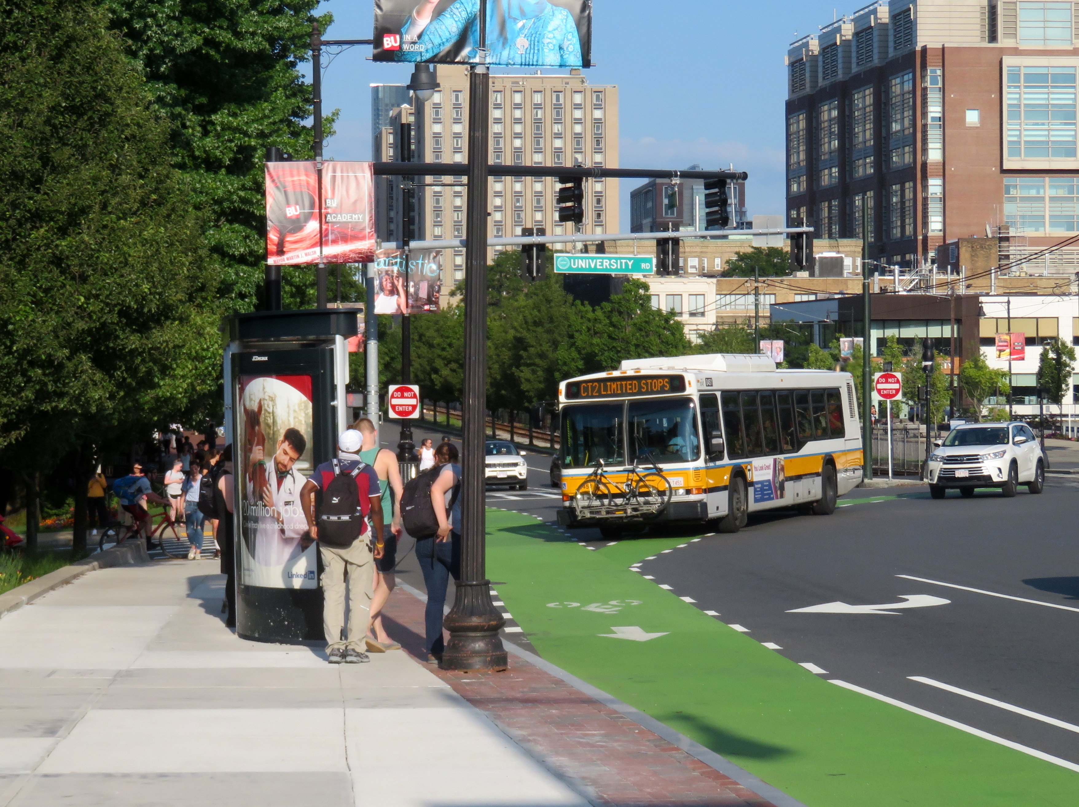 An MBTA route CT2 bus approaching the University Road stop in July 2019